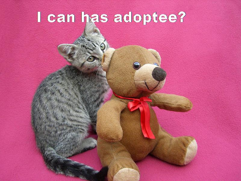 Lolcat for adoptees.